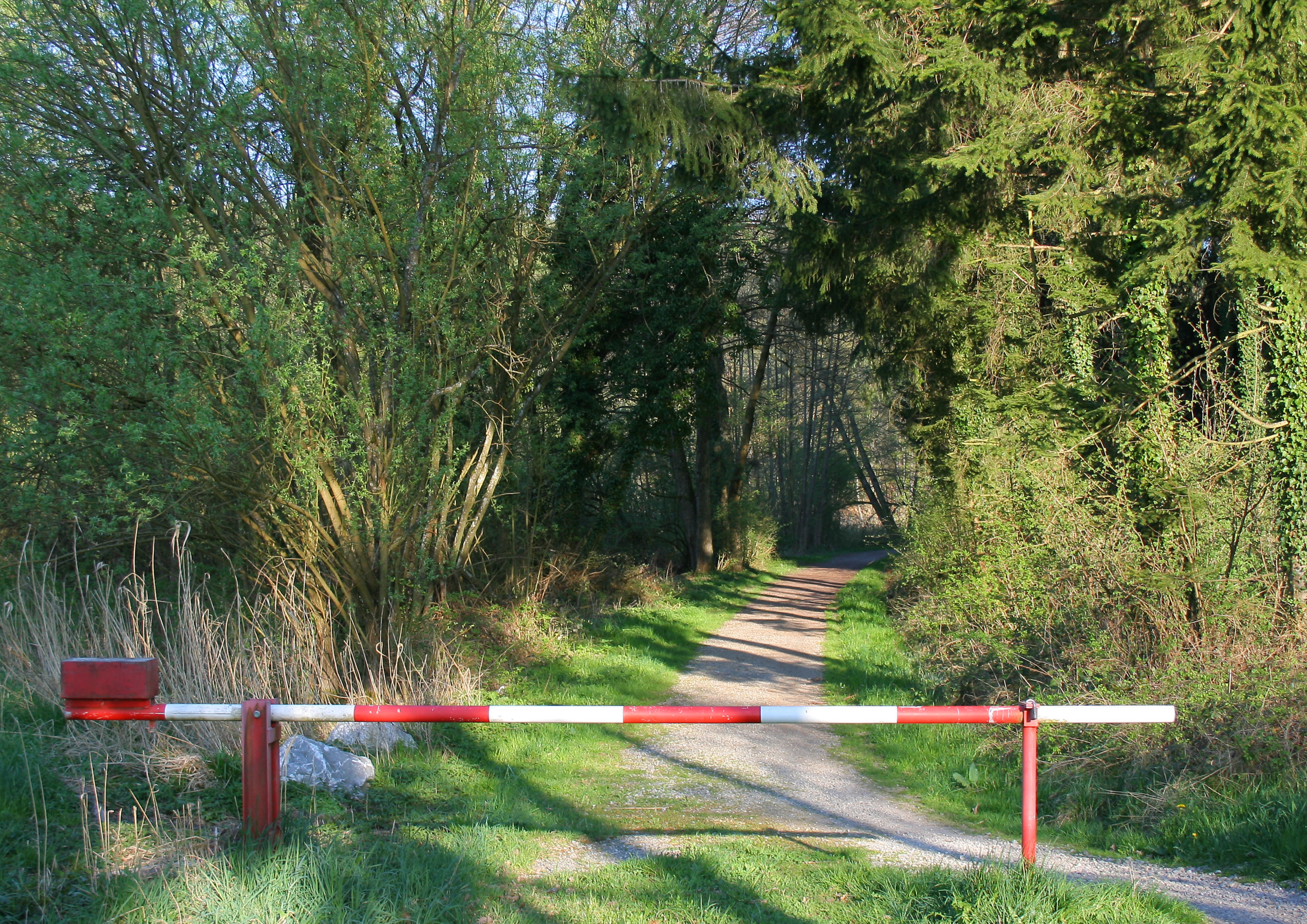 A barrier, restricting the acces for cars for a nature reserver